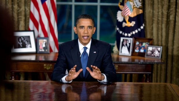 United States President Barack Obama speaking in the Oval Office of the White House about the Deepwater Horizon oil spill, in his first official address from the Oval Office.